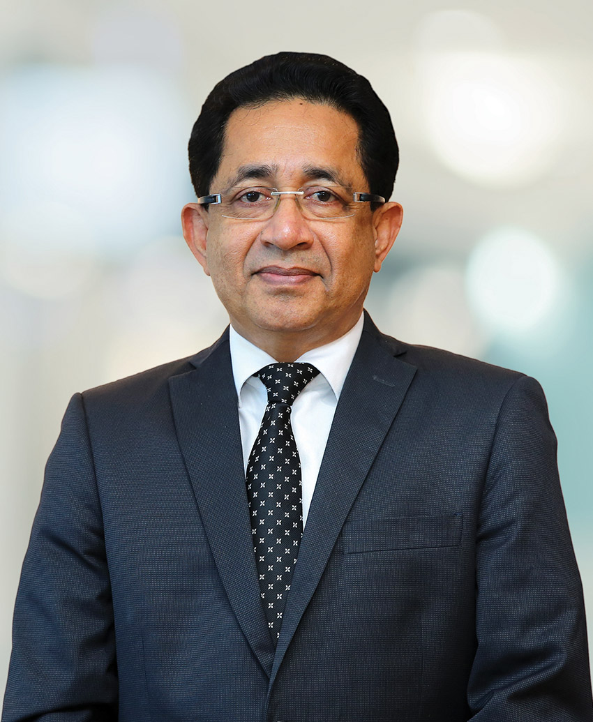 Joy Alukkas